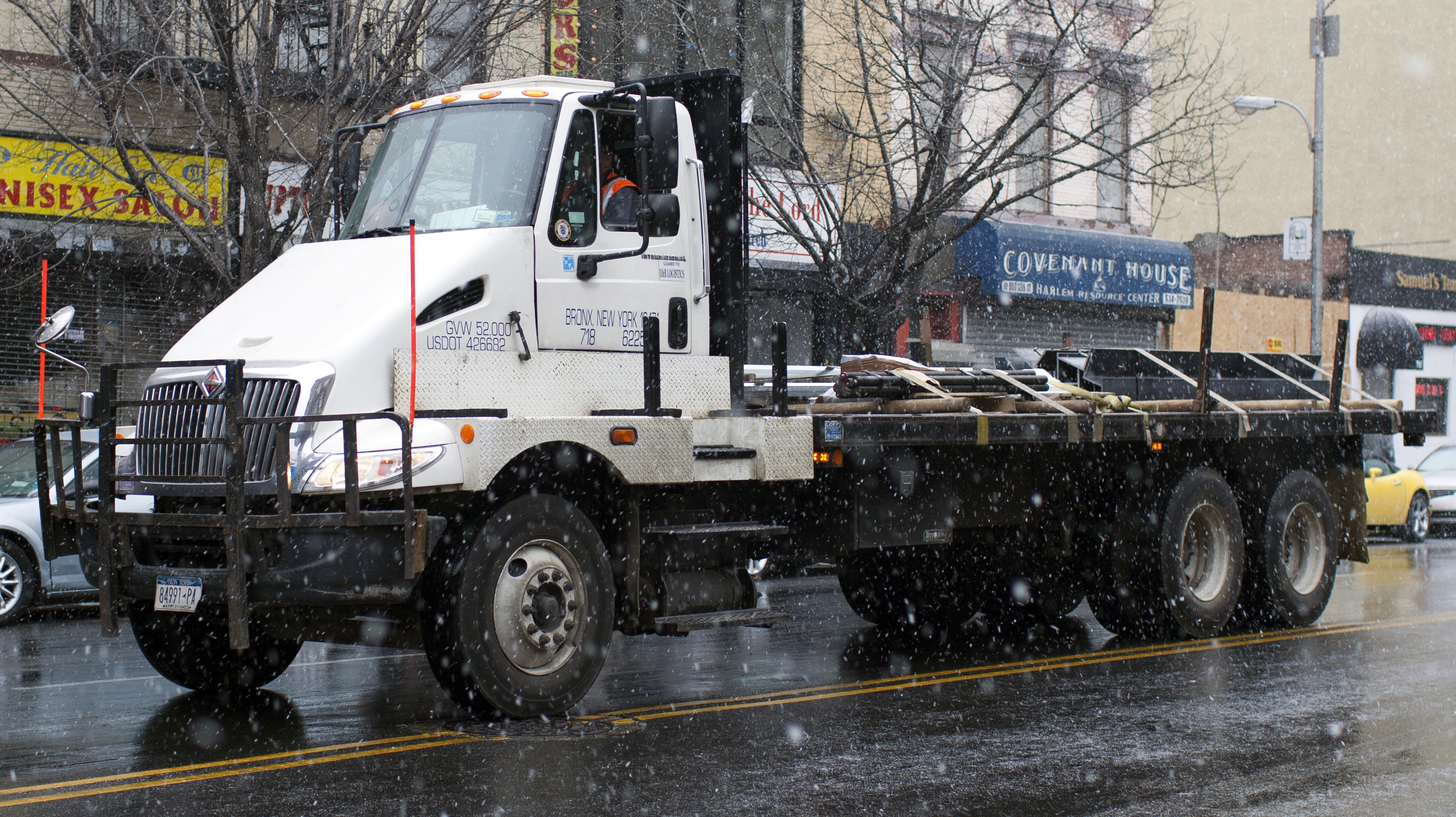 International Transtar 8600 (could be an 8500 I suppose) 6x4 with a special single-seat narrow cabin. This is needed to provide room for longer pipes than would otherwise have been possible for a truck of this length. I don't know if NYC regulations on overall length make this design particularly useful in the city. The doors are cut off at the bottom, but should the load block them there is also usually a rooftop hatch to allow entry and egress.